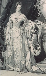 Low Necklines. Wide Sleeves. Bodices ending at the waistline.